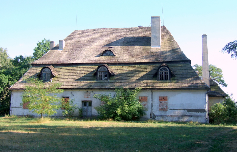 Traditional Polish manor house in Siedmiorogów (Wielkopolska region)